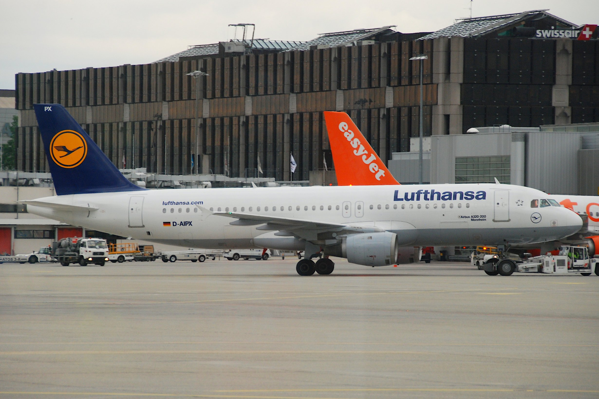 First flight: November 29, 1990...(c/n 147) 06/02/1991 Lufthansa D-AIPX 01/06/2003 Germanwings D-AIPX 22/07/2004 Lufthansa D-AIPX named Mannheim